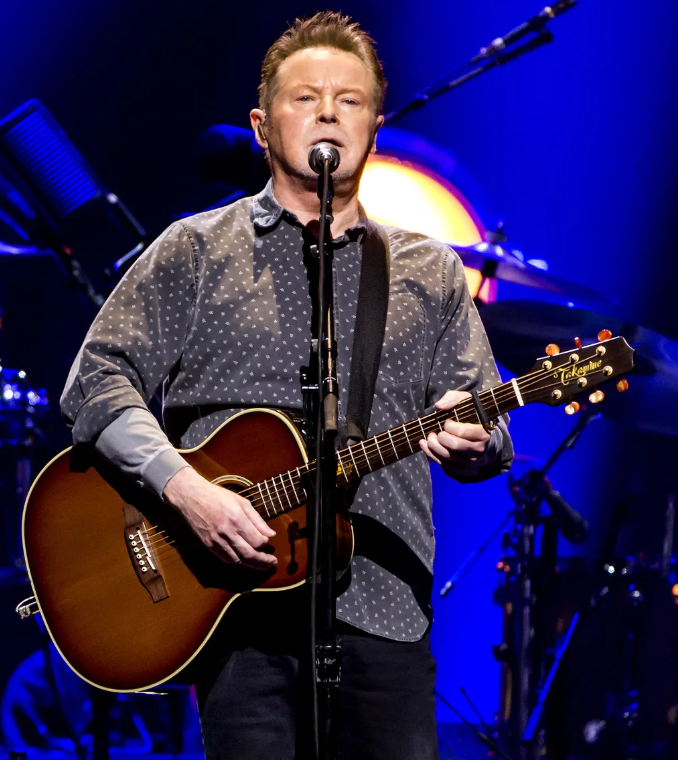 Don Henley in concert